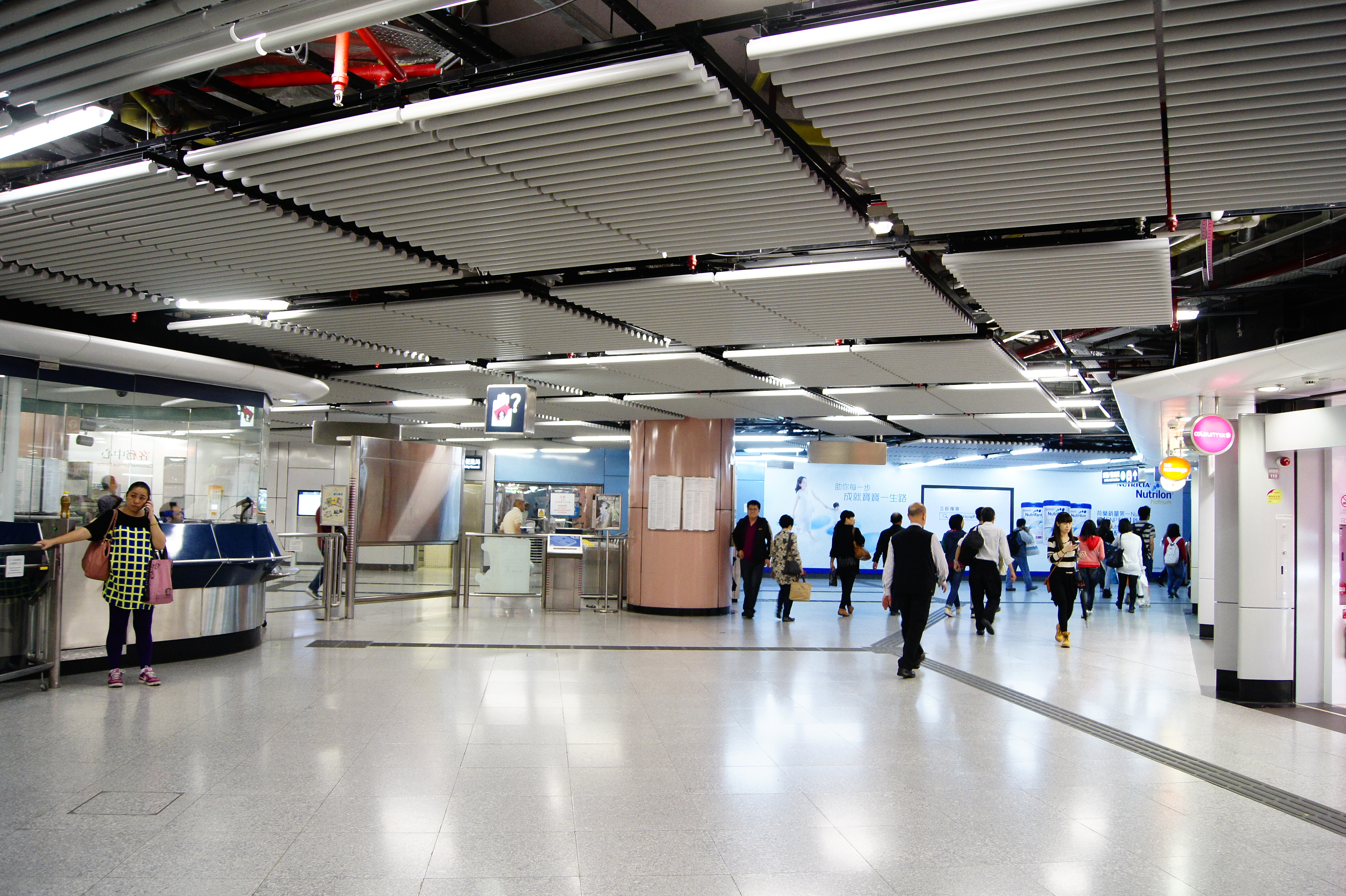 MTR Kowloon Tong Station East Rail Line Northern concourse